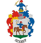 Coat of arms of Szerep, Hungary